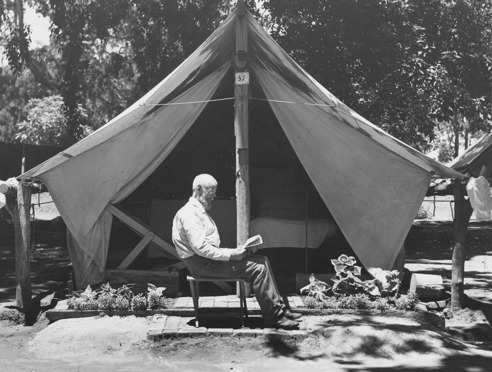 Resident of Dunwich Benevolent Asylum, Stradbroke Island, 1938 Can you help us describe this image?.